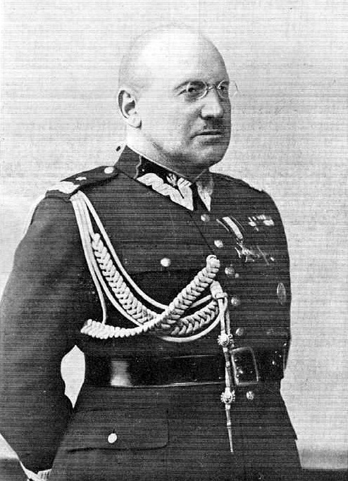 Aleksander Litwinowicz, polish general, emeritus member and first treasurer of Pogoń Lwów.